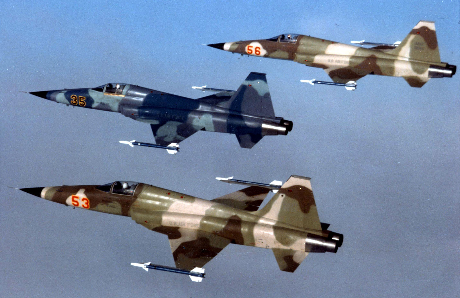 A formation of three U.S. Air Force aggressor Northrop F-5E Tiger II aircraft of the 527th TFTS, RAF Alconbury, U.K., on 15 January 1983.